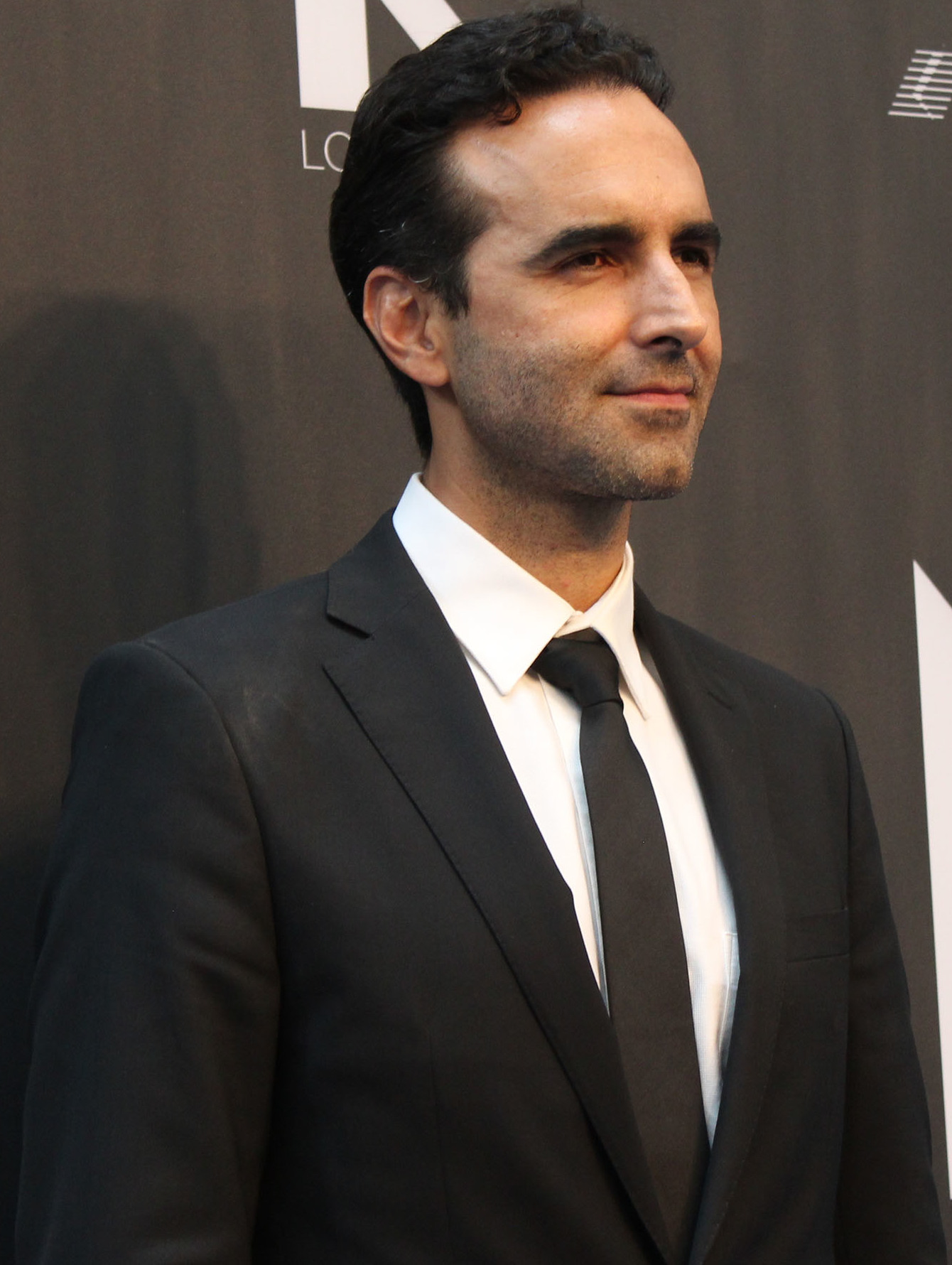 Arturo Barba at the blue carpet in Telcel theatre, Mexico City. Wednesday, August 21, 2019. Picture by Ingrid Poblano / Secretaria de Cultura de la Ciudad de Mexico.